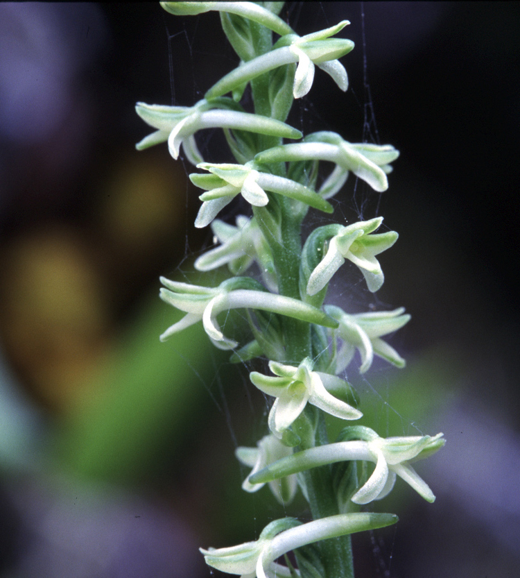 Piperia transversa or Platanthera transversa — Royal rein orchid. At the Humboldt Bay National Wildlife Refuge Complex, northern California.